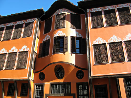 Historical Museum in Old Town - Plovdiv, Bulgaria